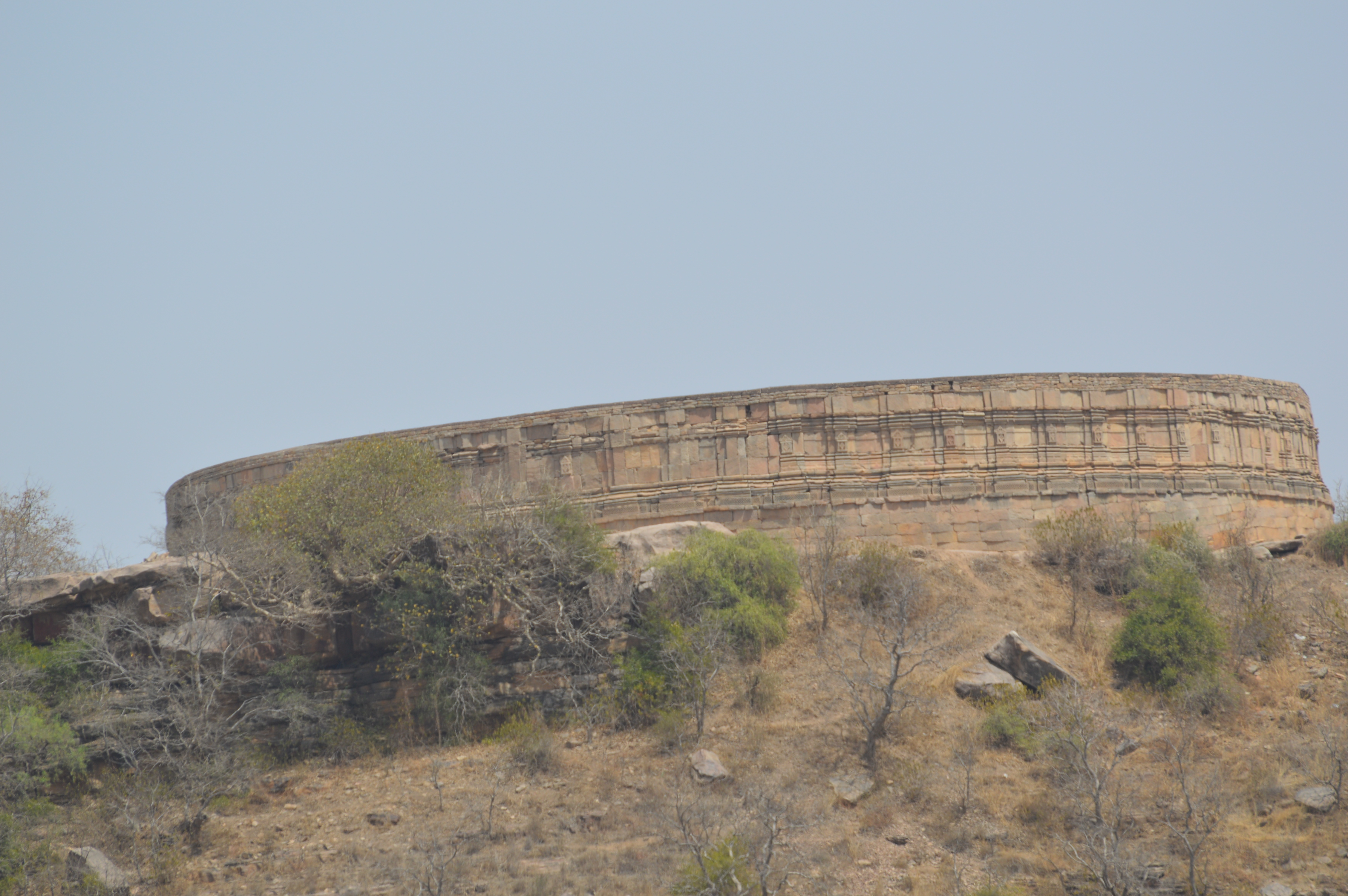 mitawali morena mp